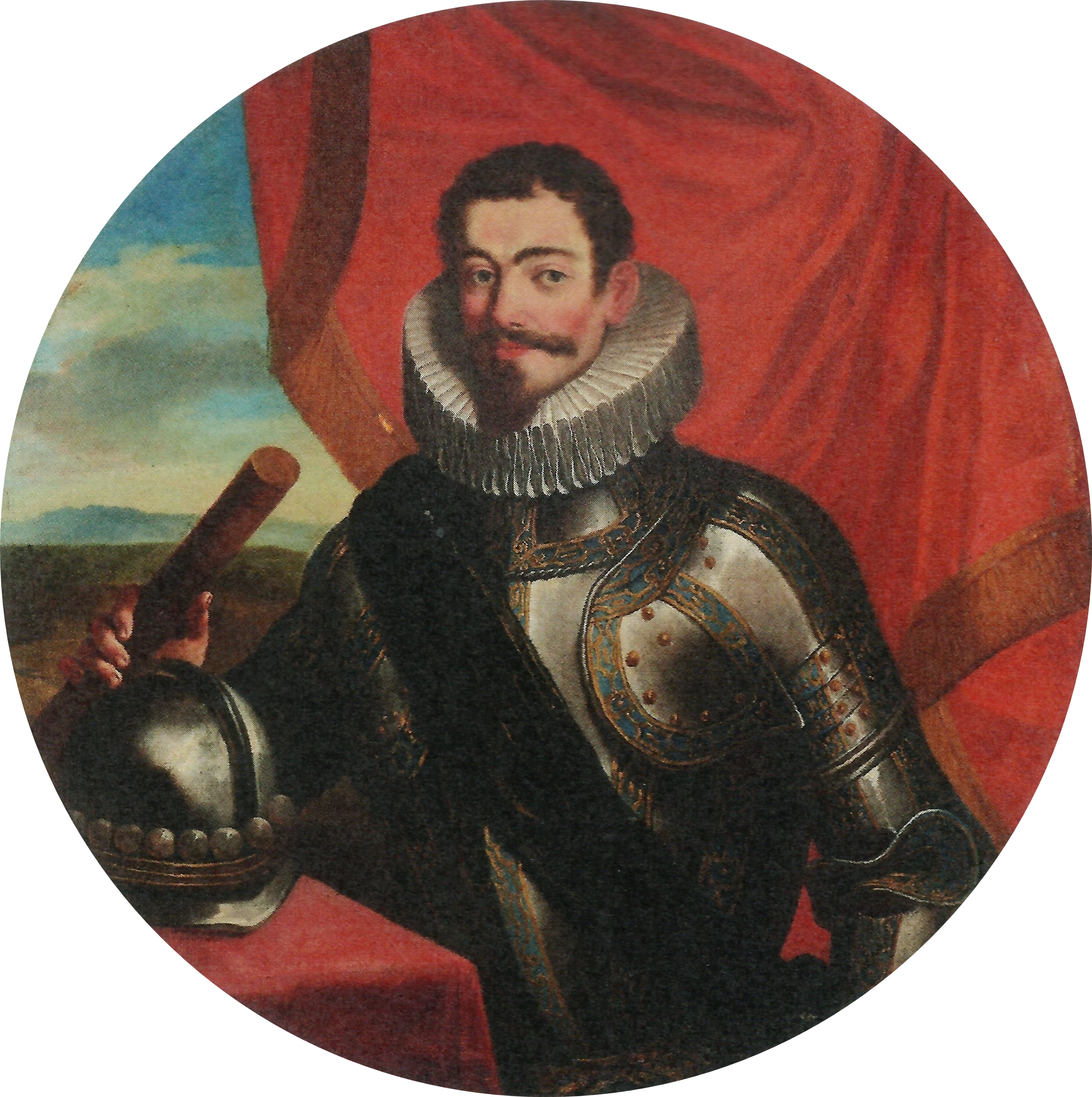 Portrait of Francisco de Sá e Meneses, 2nd Count of Penaguião (c. 1750). Private collection of Maria da Conceição de Lencastre e Távora.